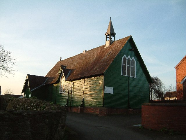 Parish church of the Resurrection, Hurley, Warwickshire. A green wooden church consecrated in 1861